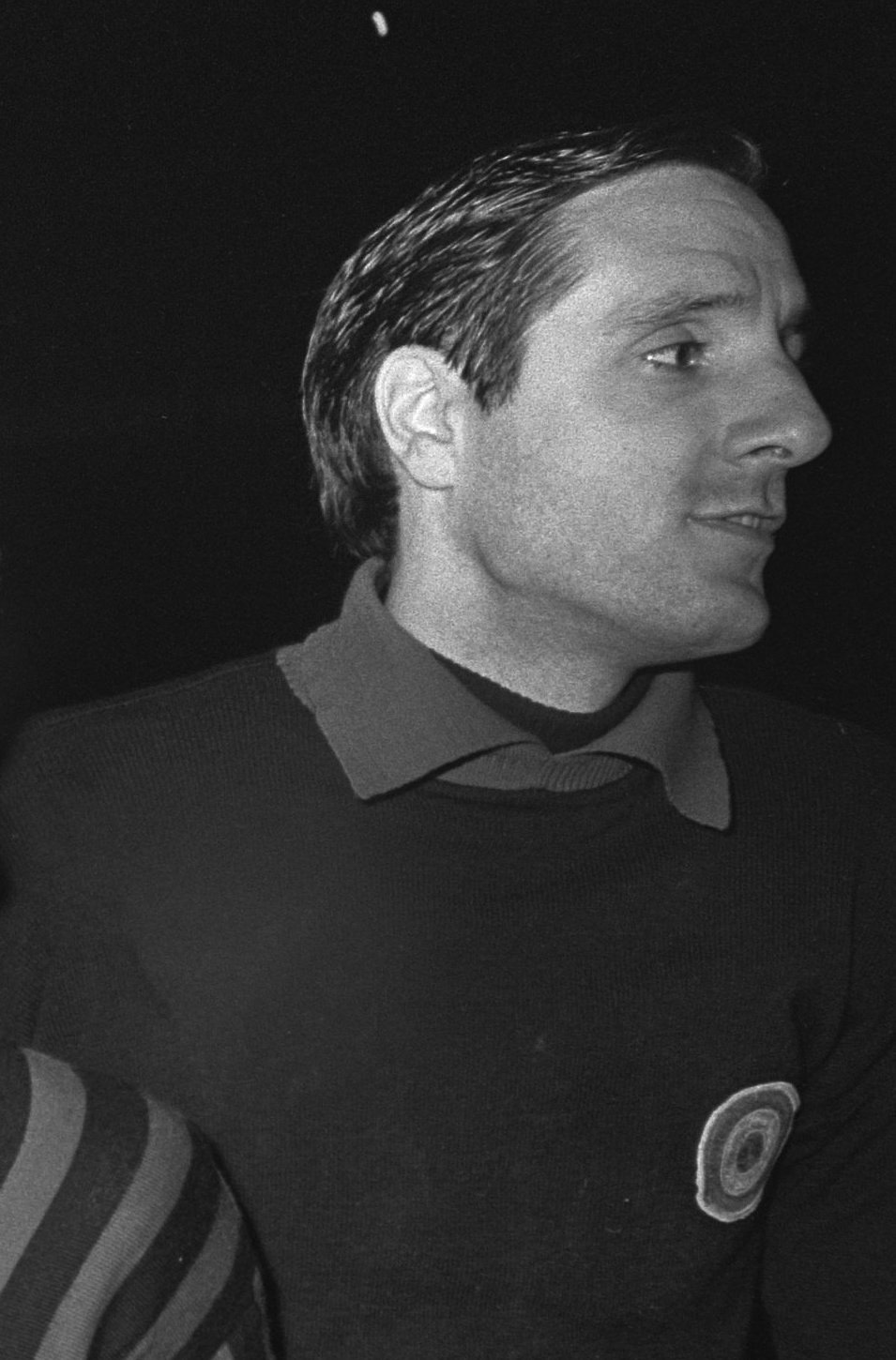 1967-68 UEFA Cup Winners' Cup final in Rotterdam, AC Milan vs Hamburger SV. AC Milan goalkeeper Fabio Cudicini.